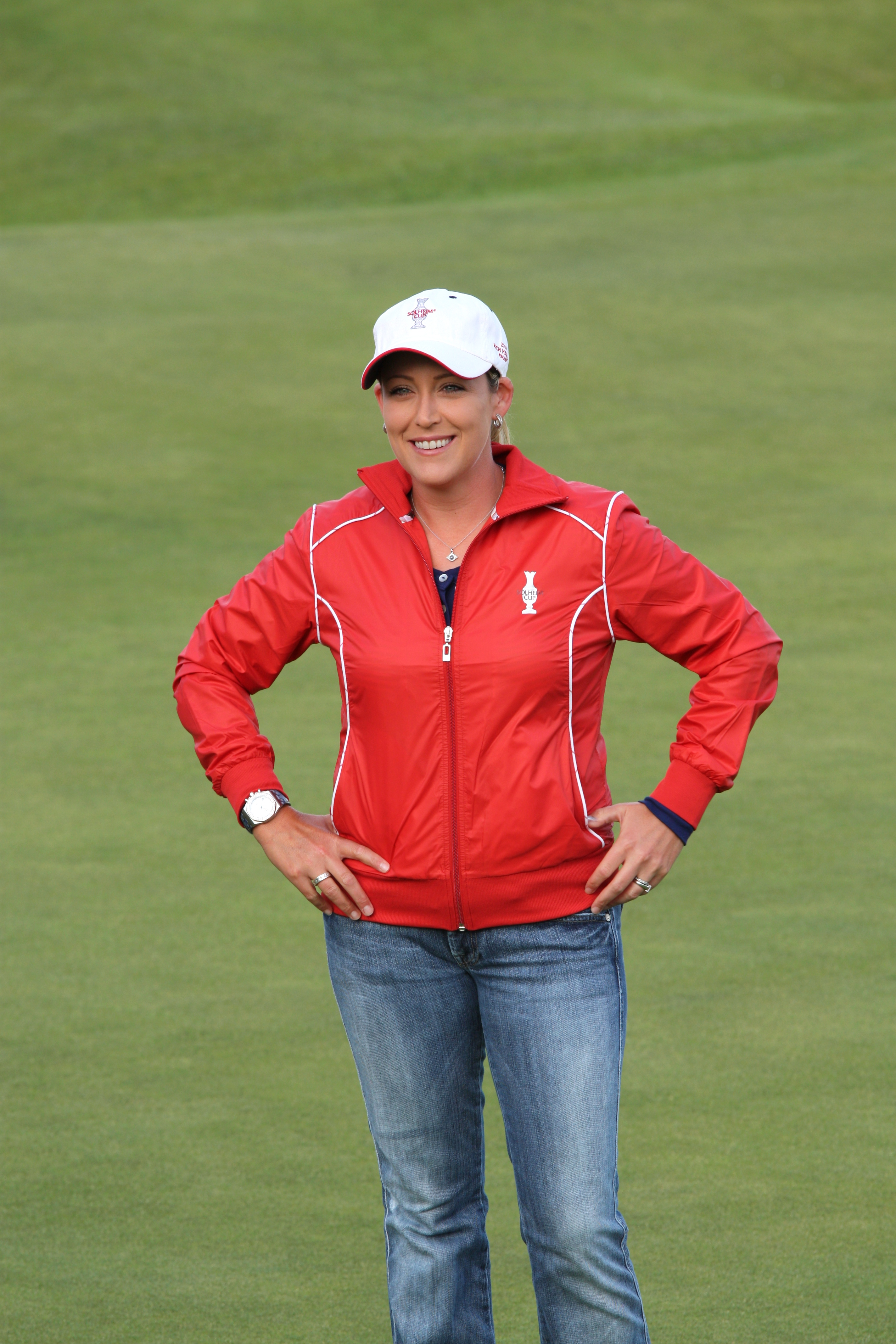 LYTHAM ST ANNES, UNITED KINGDOM - AUGUST 02: Cristie Kerr of USA, member of the USA Solheim Cup Team, posing for a photograph after announcement of Solheim Cup teams, which followed final round of the 2009 Ricoh Women's British Open held at Royal Lytham & St Annes on August 2, 2009 in Lytham St Annes, England. (Photo by Wojciech Migda)